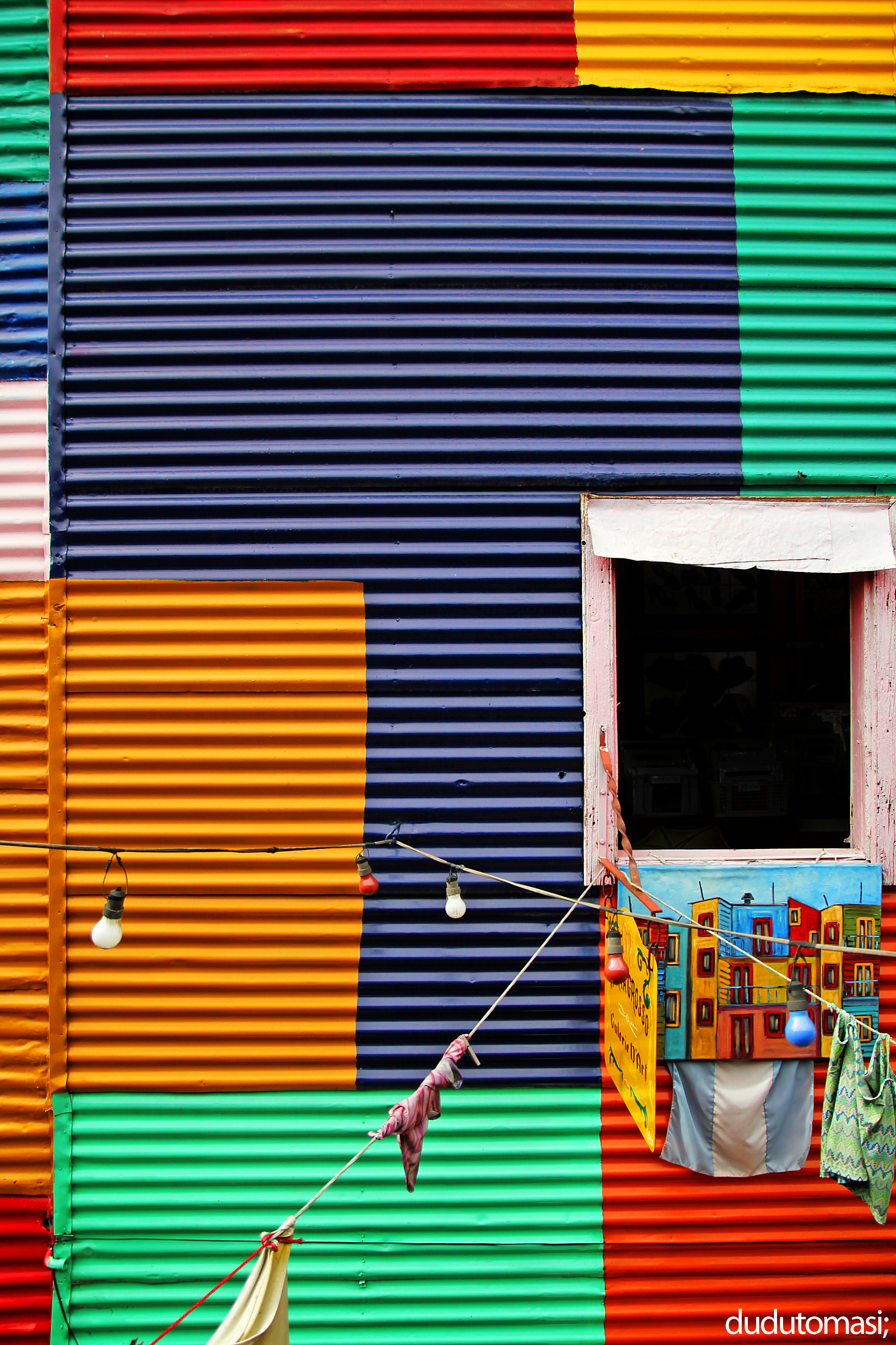 Window in Caminito!